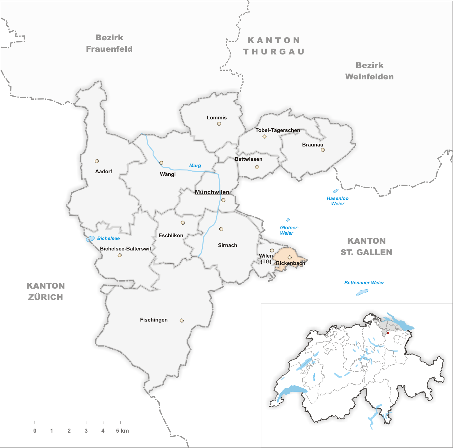 Municipality Rickenbach